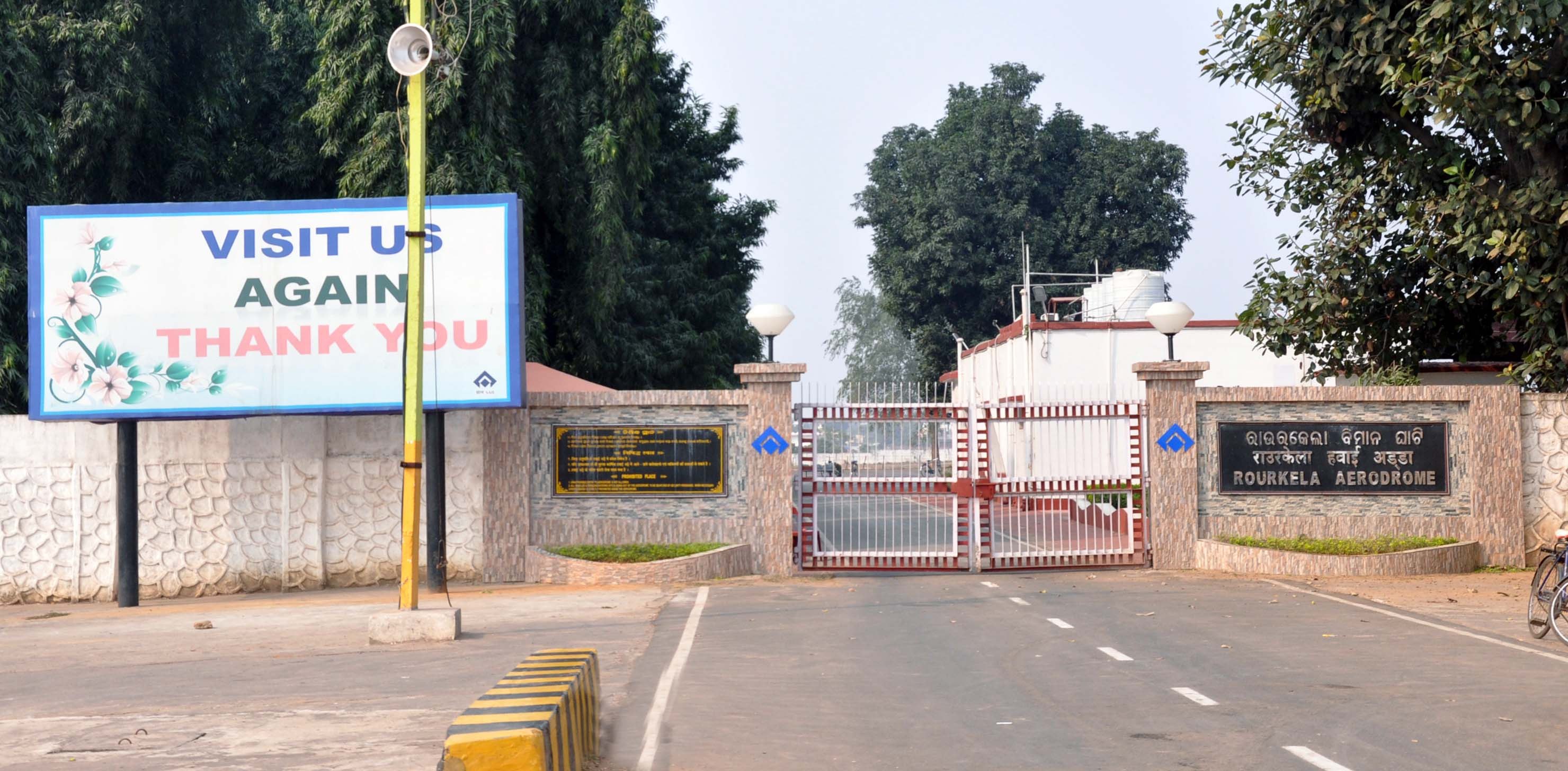 Rourkela-Airport